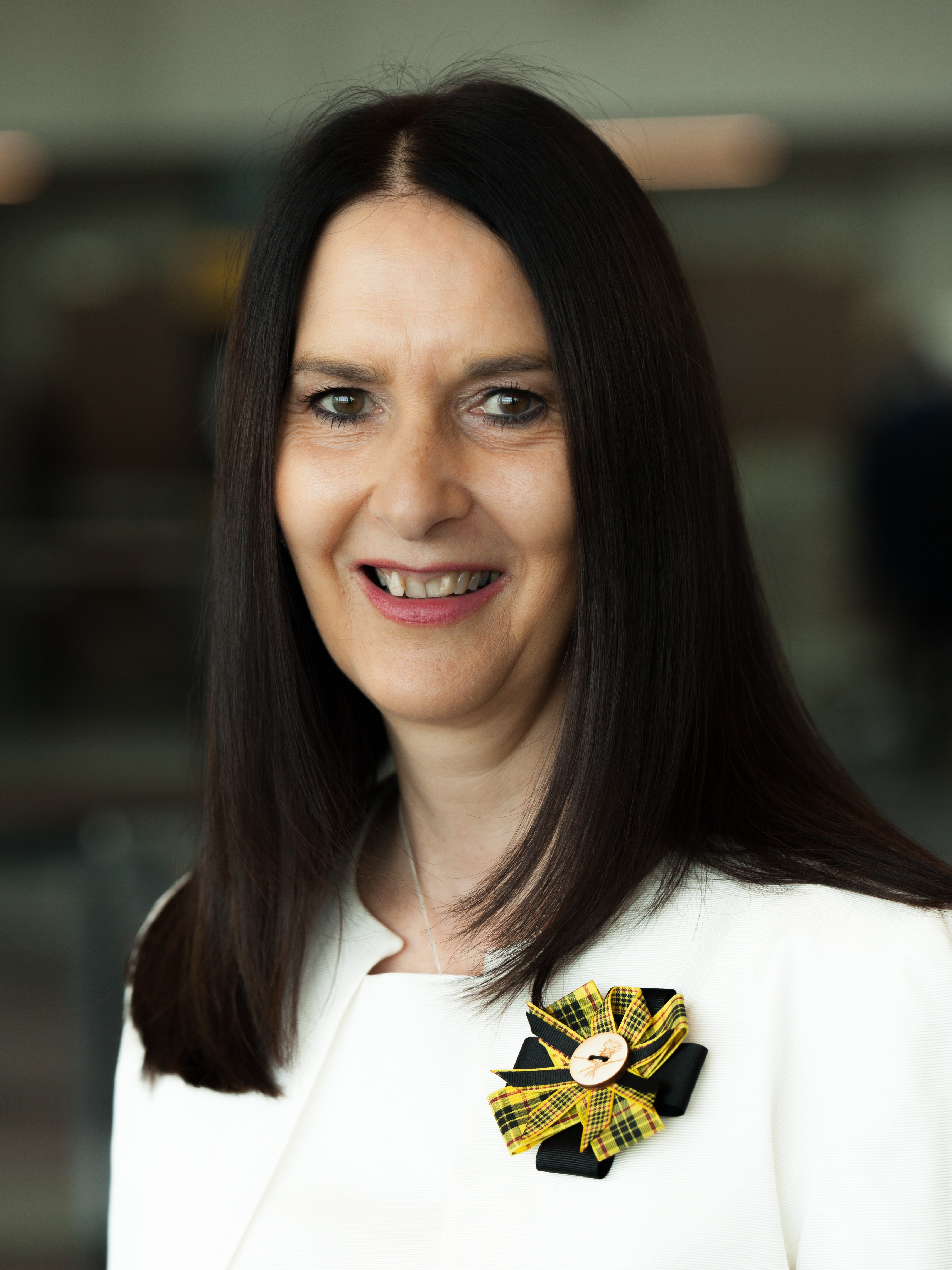 Portrait of Margaret Ferrier, MP for Rutherglen and Hamilton West.